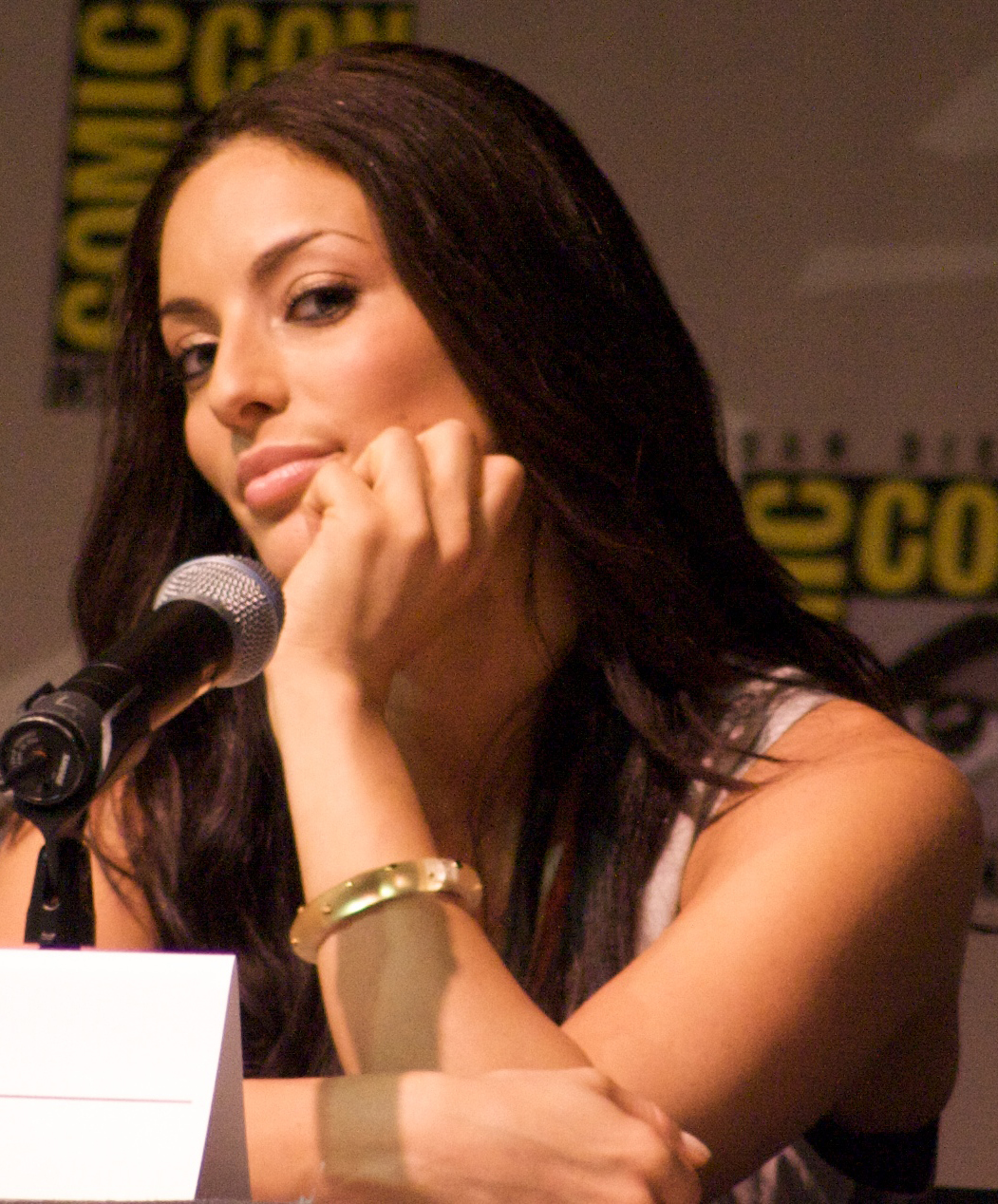 Erica Cerra at the 2009 Comic-Con International in San Diego, California.